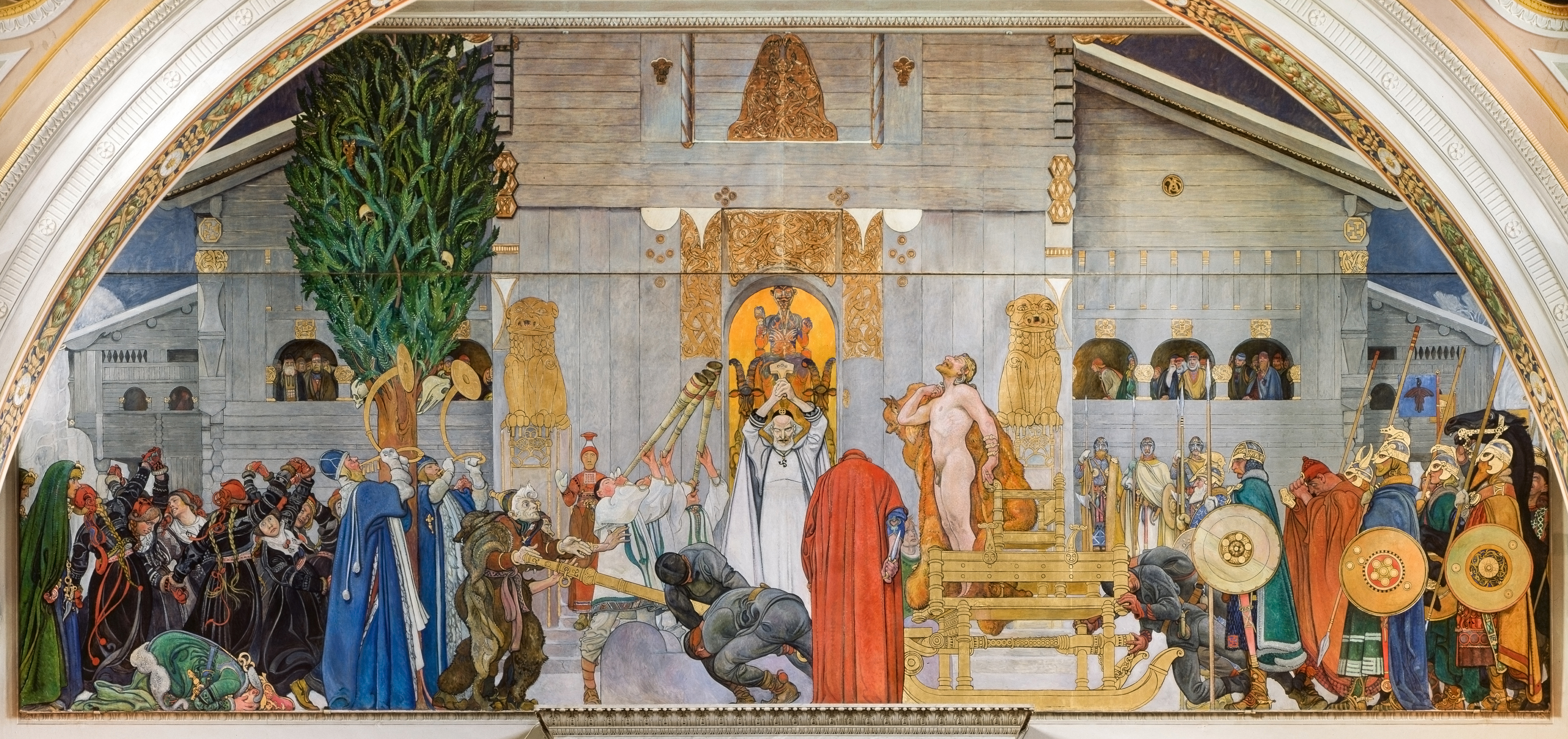 Midvinterblot (" Midwinter Blót/Sacrifice"), oil painting by Carl Larsson in Swedish National Museum of Fine Arts, Stockolm. For full description, see the original TIF file page: File:Midvinterblot (Carl Larsson) - Nationalmuseum - 32534.tif. The original TIF file made by Nationalmuseum was edited in Lightroom with some additional tweaking and cropping in Photoshop. See file history for steps and more details.